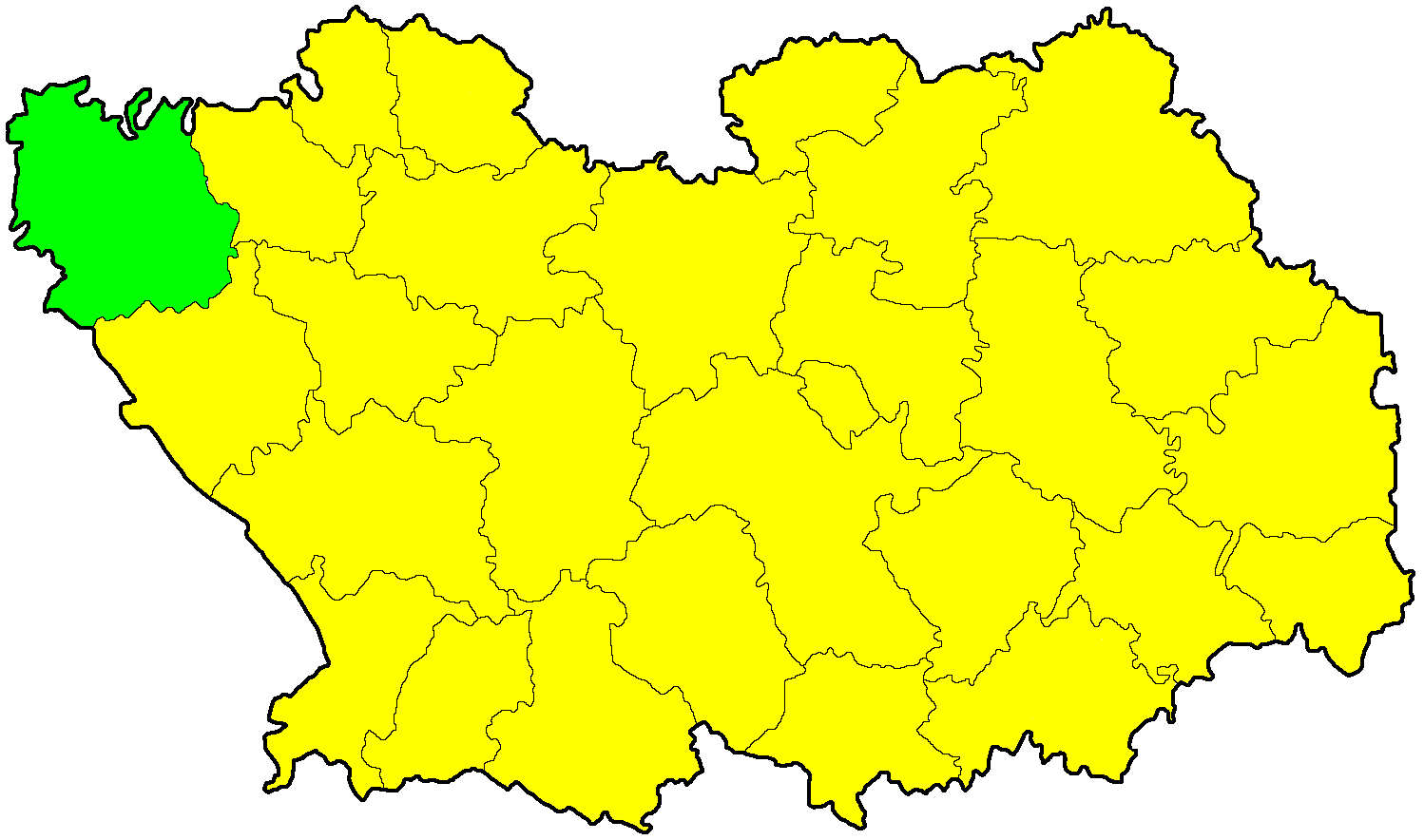 Zemetchinsky District, Penza Oblast, Russia